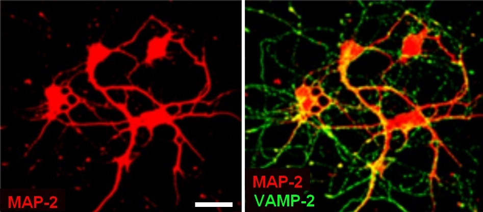 Representative confocal microscopy pictures of primary hippocampal neurons stained with early marker MAP-2 (left) and with both MAP-2 and synaptic vesicle associated marker VAMP-2 (right) at 10 div. Scale bar = 25 μm. MAP-2 stands for somatodendritic marker microtubule associated protein 2.